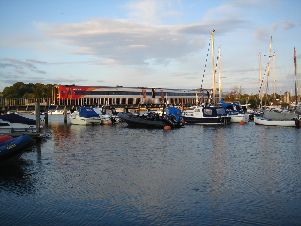 159 008 on the bridge between Lymington Town and Lymington Pier